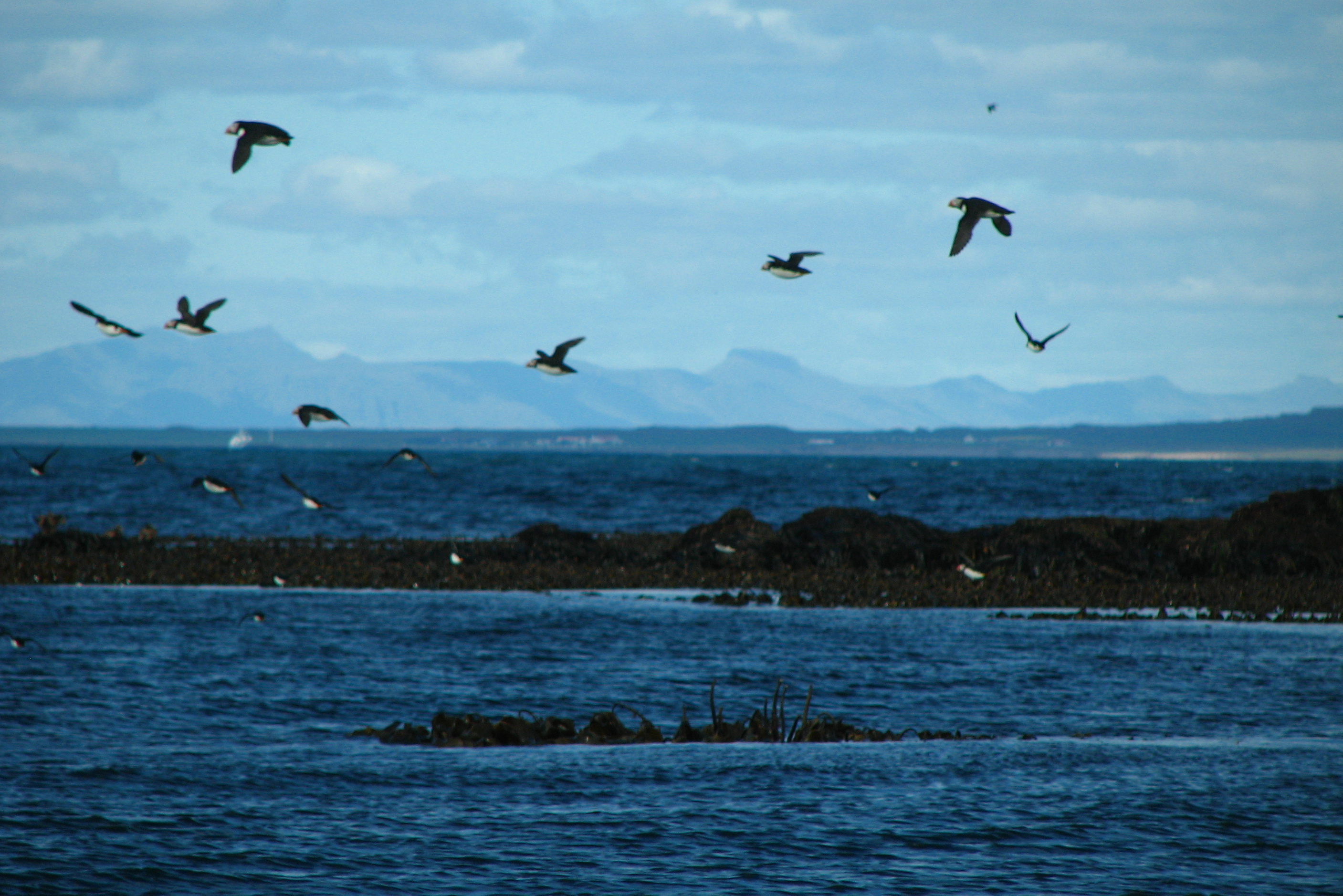 Höfuðborgarsvæðið, Puffin Island, puffins, road trip, 2008-08 -- Iceland 1st Anniversary Trip, chordata, animalia, fratercula, alcidae, charadriiformes, aves